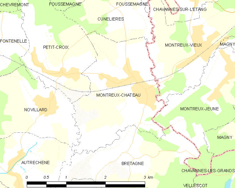 Map of French municipality Montreux-Château